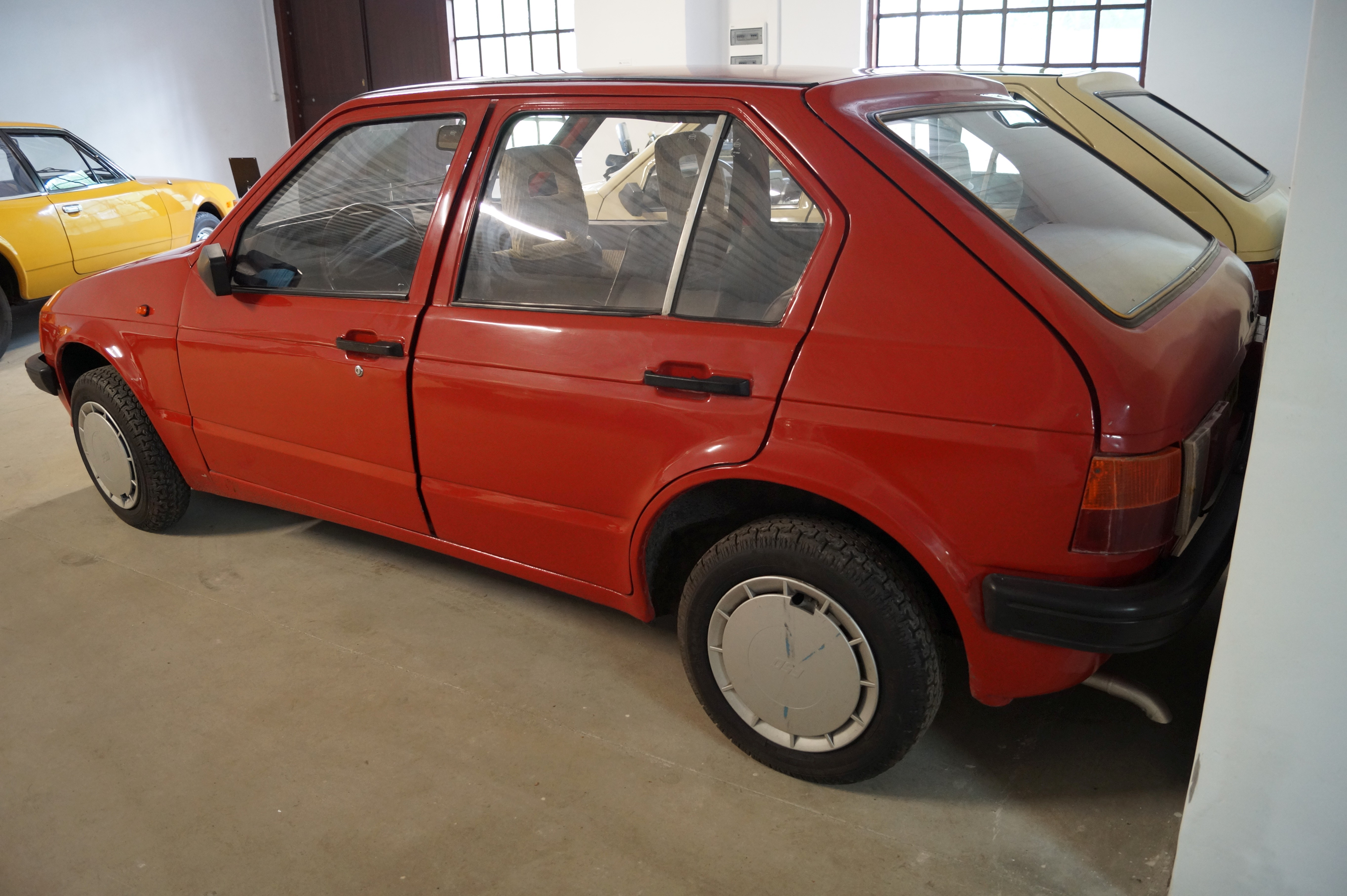 The making of this document was supported by Wikimedia Polska Association, within Wikigrant no. WG 2016-18. English | polski | +/− Bok FSO Wars w Muzeum w Chlewiskach